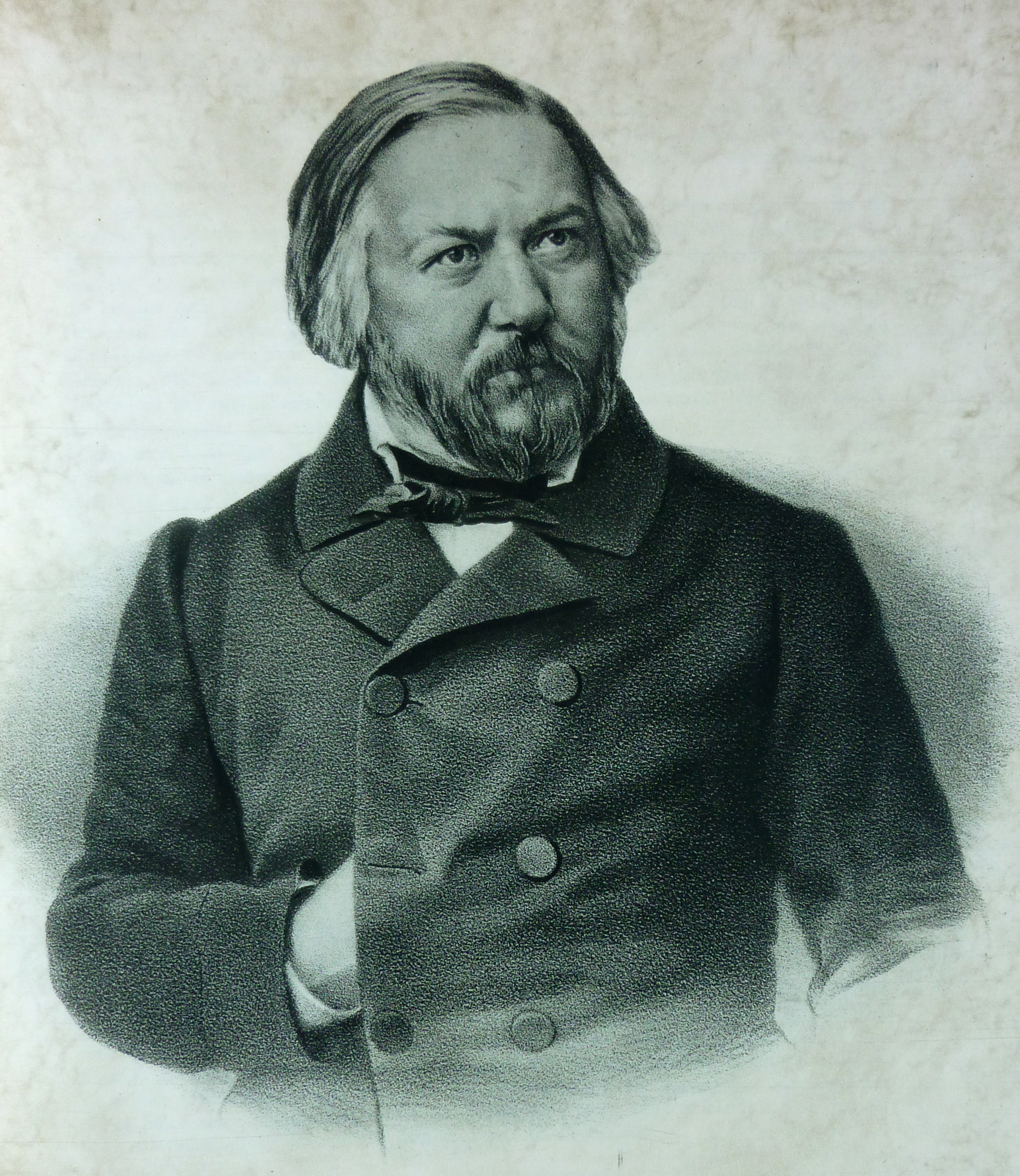 Michail Iwanowitsch Glinka, Litho